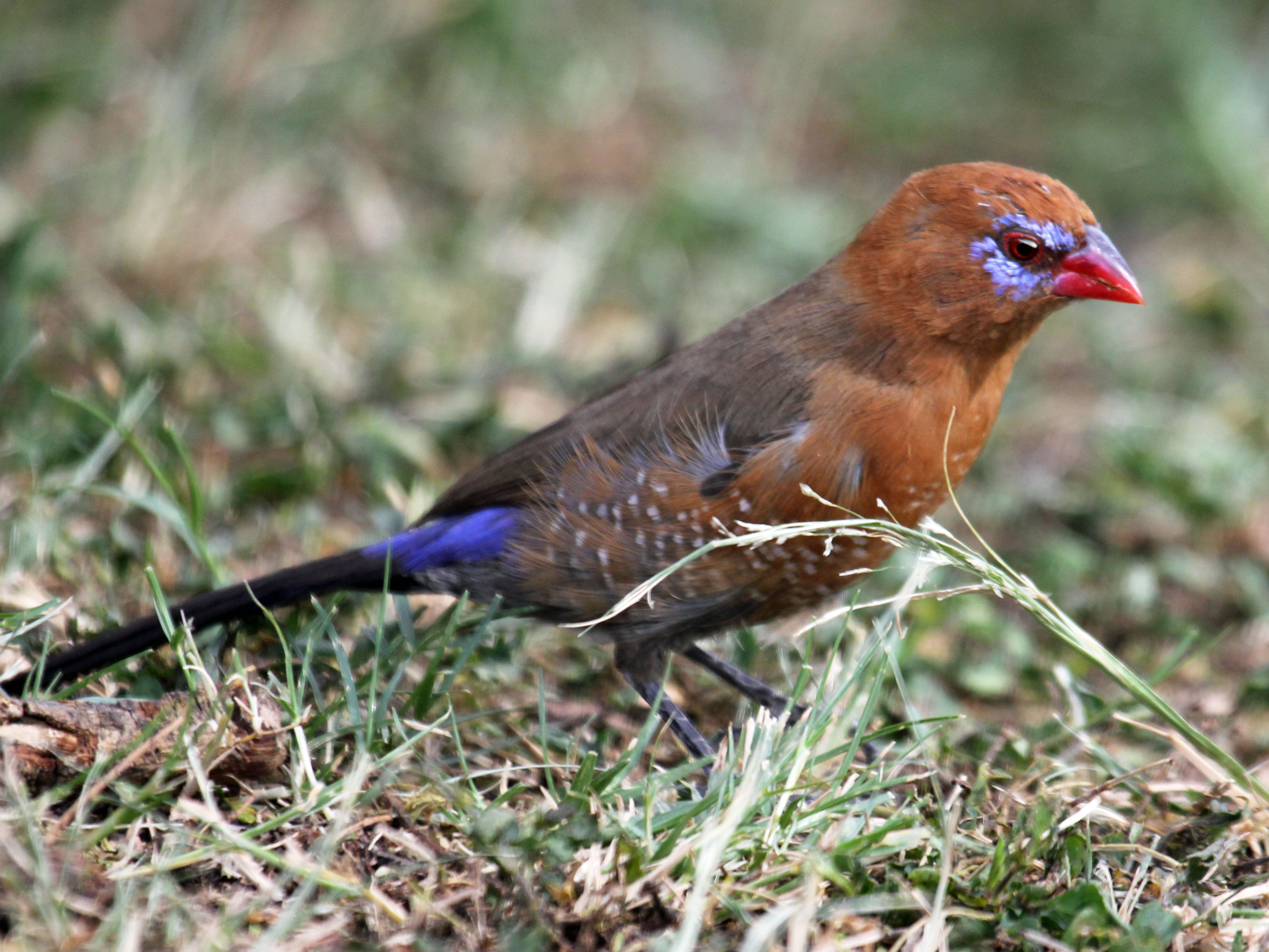 Female Purple Grenadier (Uraeginthus ianthinogaster) - Keekorok Lodge in the Masai Mara, Kenya